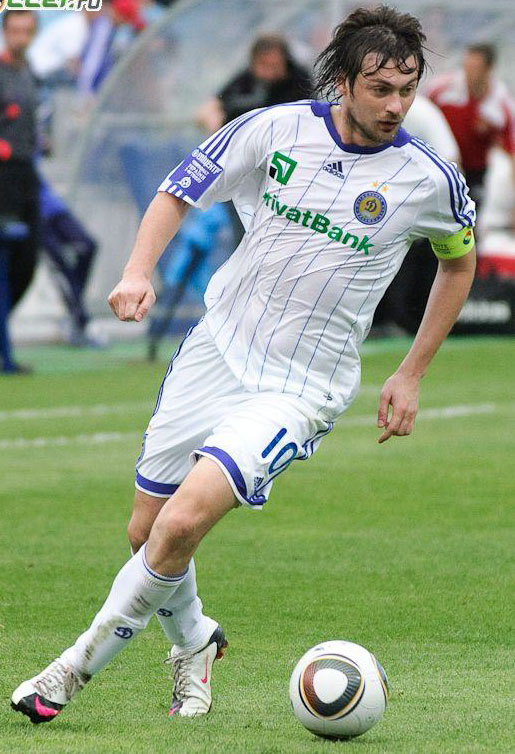 Artem Milevskiy, Ukrainian footballer, during the game for Dynamo Kyiv